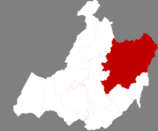 Location of Oroqin Autonomous Banner in Hulunbuir City, China